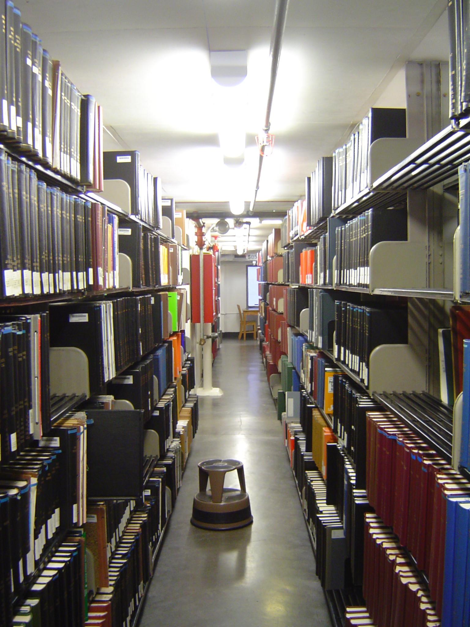 A shot of the stacks in the Life Science Library at The University of Texas at Austin.